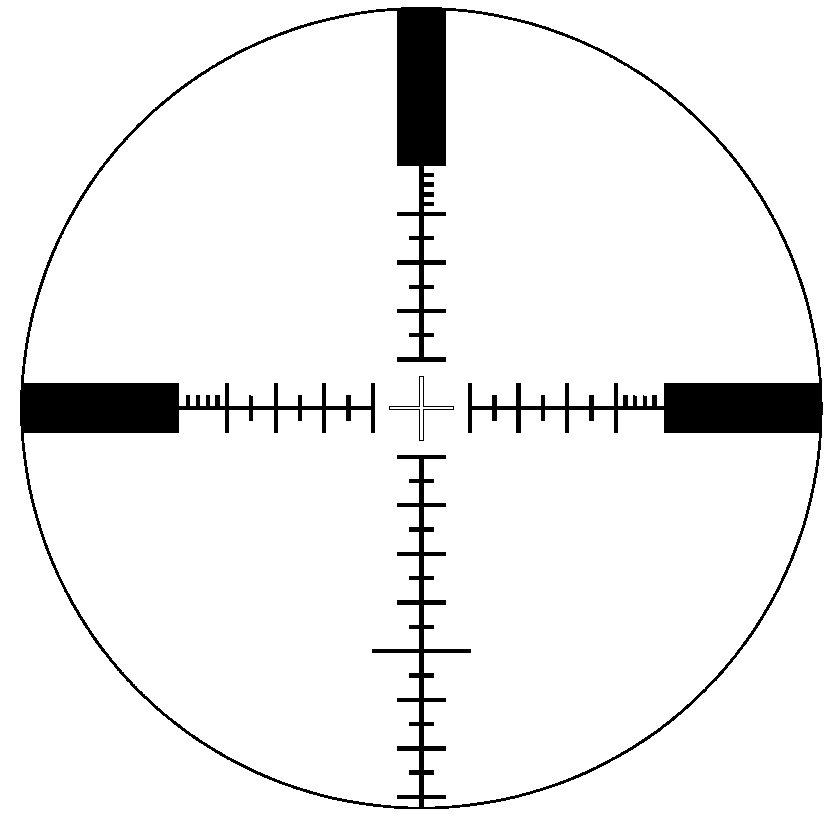 P4L stadiametric reticle as used in the Schmidt & Bender 5-25x56 PM II LP telescopic sight as seen at 25x magnification. A very similar P4L Fein reticle with less thick lines is also offered. The thinner lines used in the P4L Fein variant are intended to obscure less of the target picture but are harder to see under low light and other unfavorable viewing conditions.